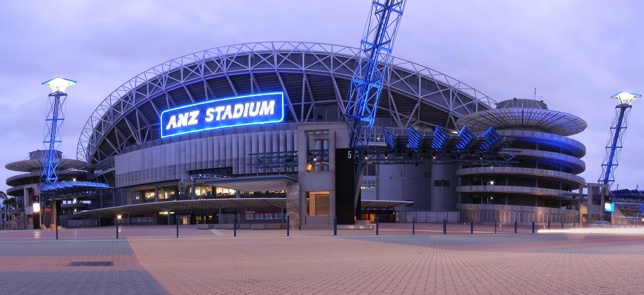 ANZ Stadium Olympic Park Sydney Australia